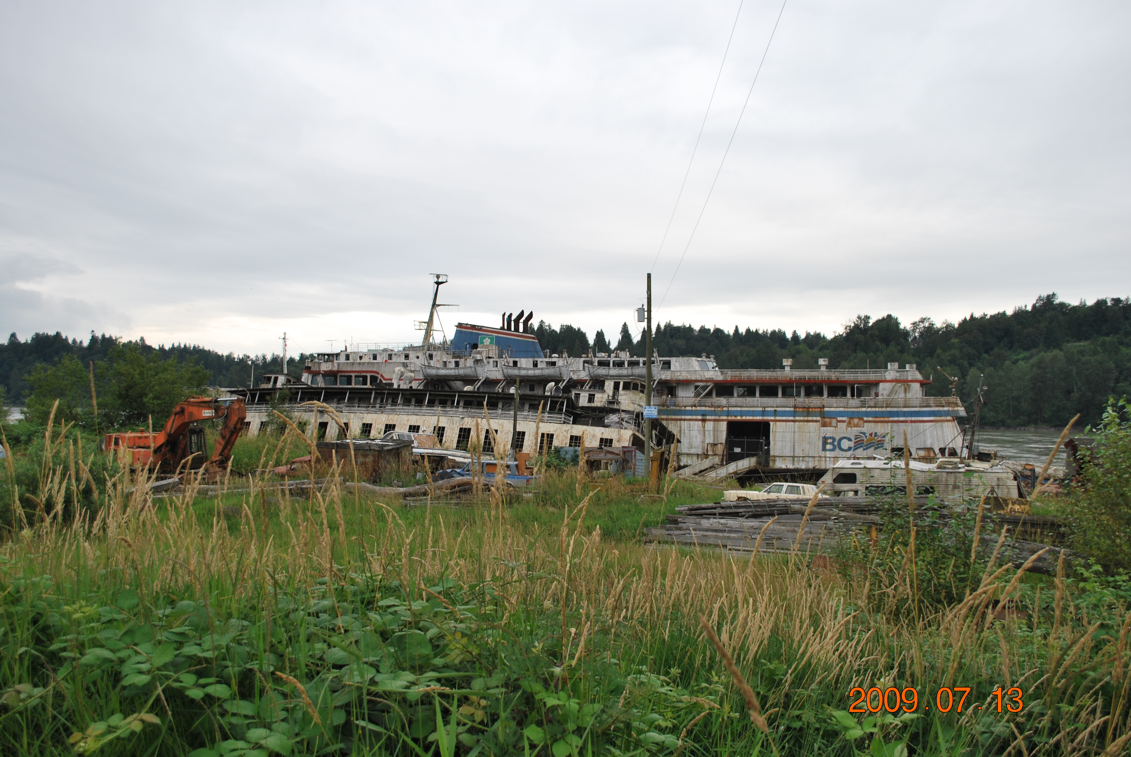 Luke Tengs Queen of Sidney